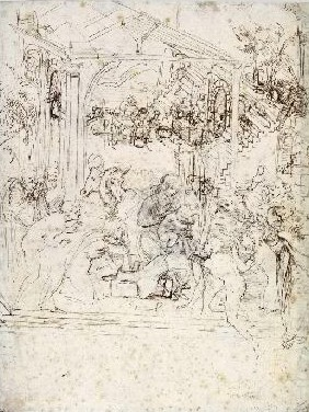 en: Study for the Adoration of Magi pl: Studium do Pokłonu Trzech Króli